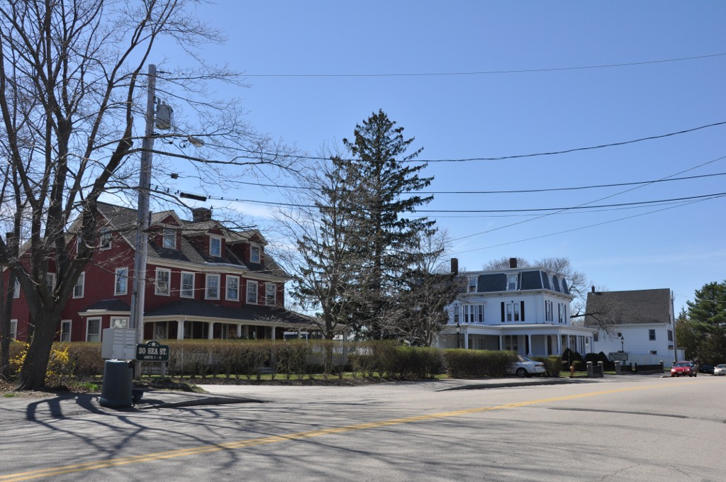 Part of the Sea Street Historic District of Weymouth, Massachusetts.